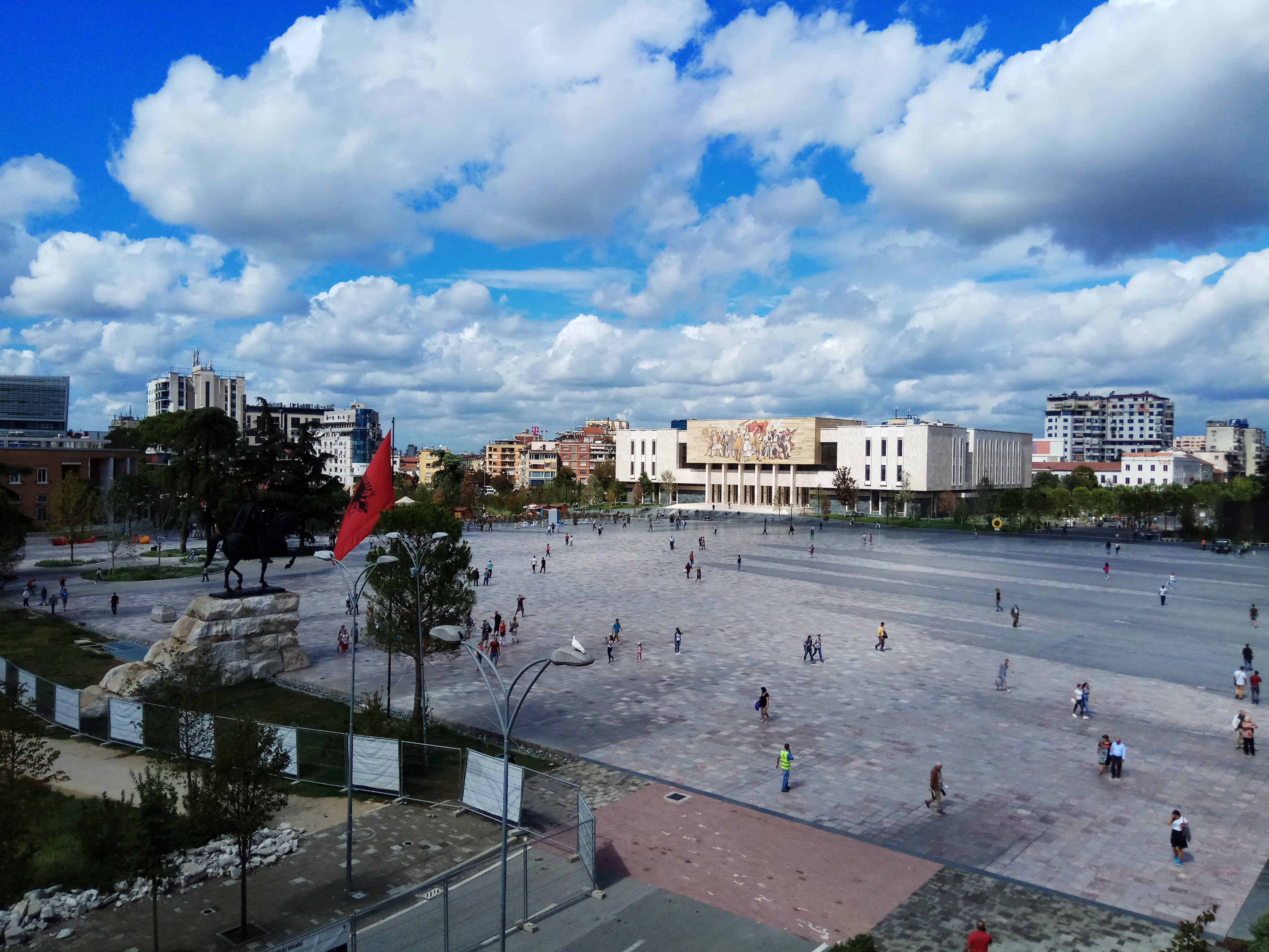 View of the central square of Tirana from the roof of the Municipality